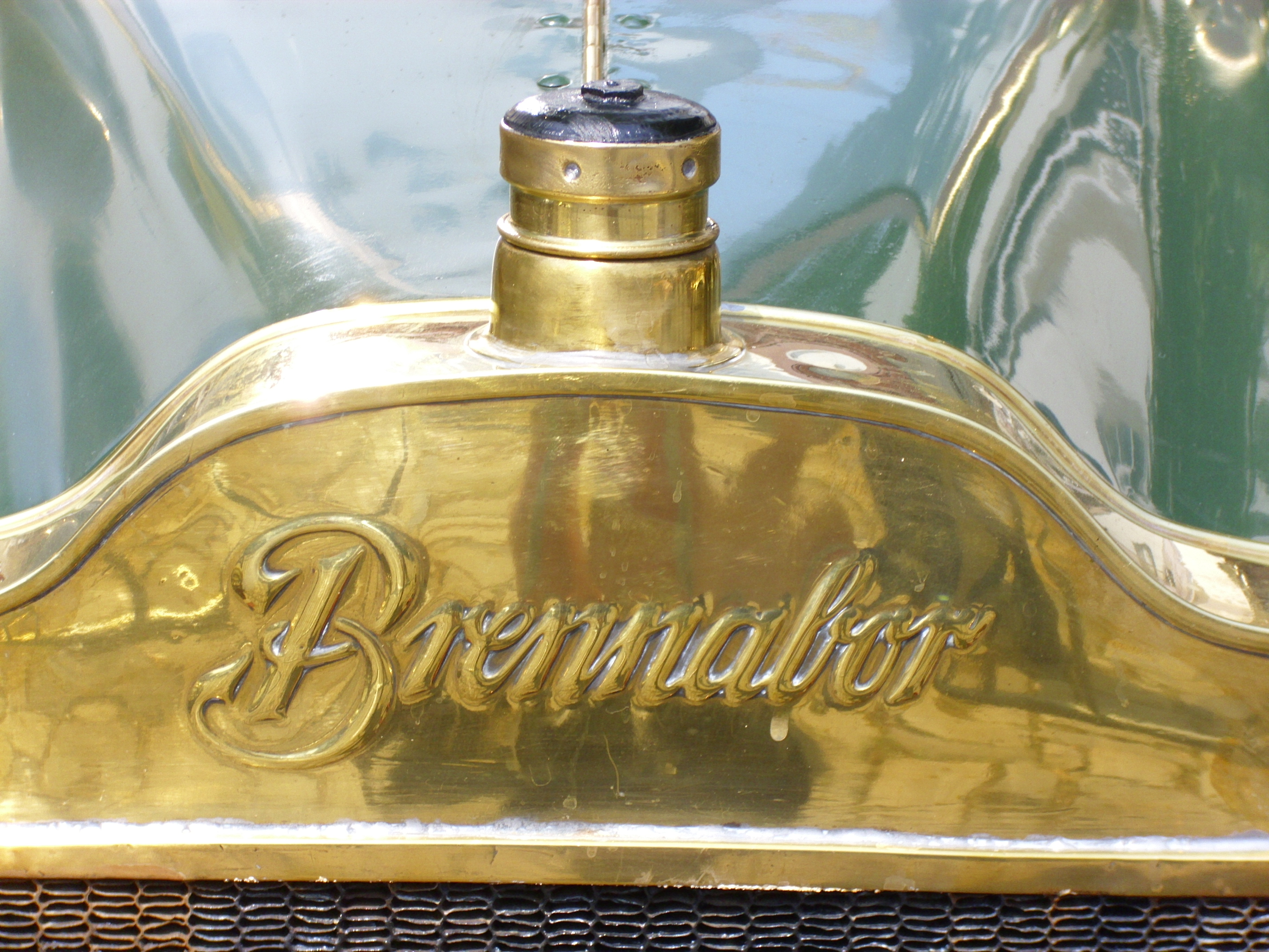 Emblem Brennabor